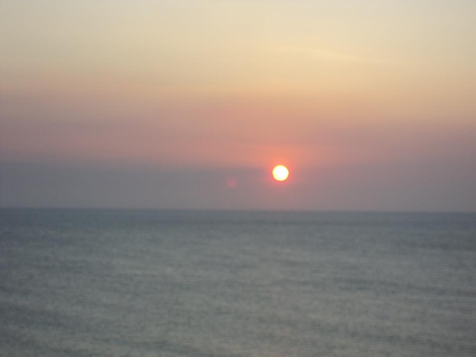 Tasi ibun parte sul Vessoru